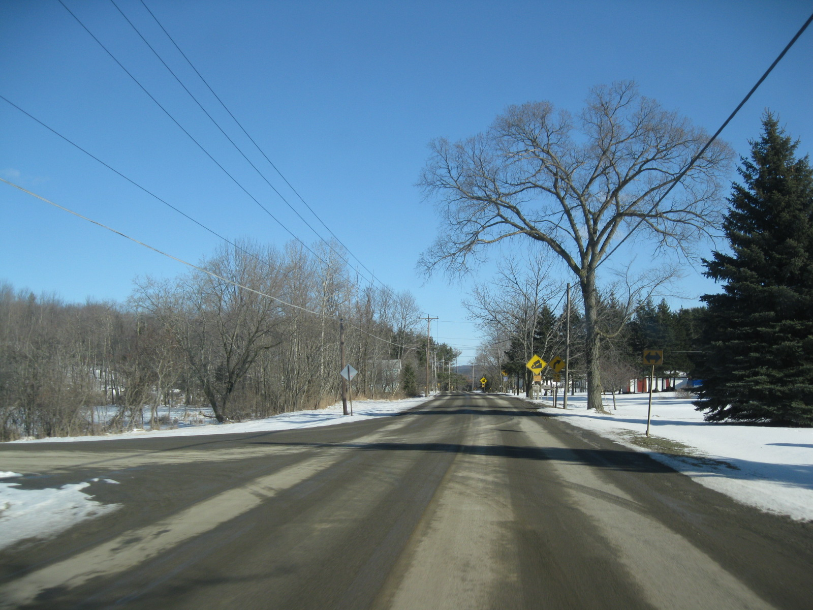 Chenango County Route 10A facing eastbound at the intersection with the eastern terminus of County Route 19.